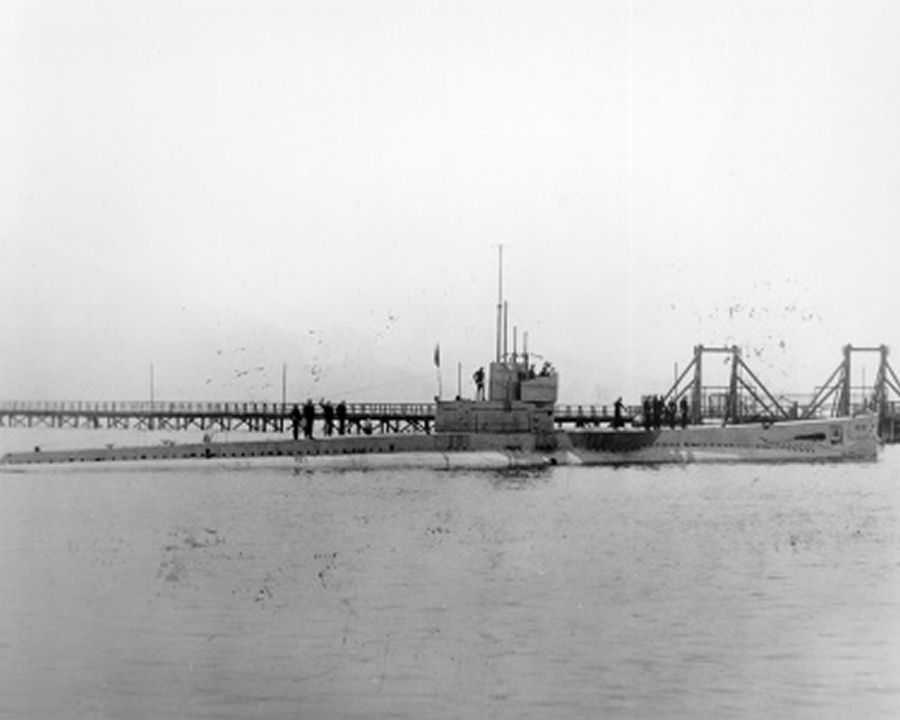 United States Navy submarine